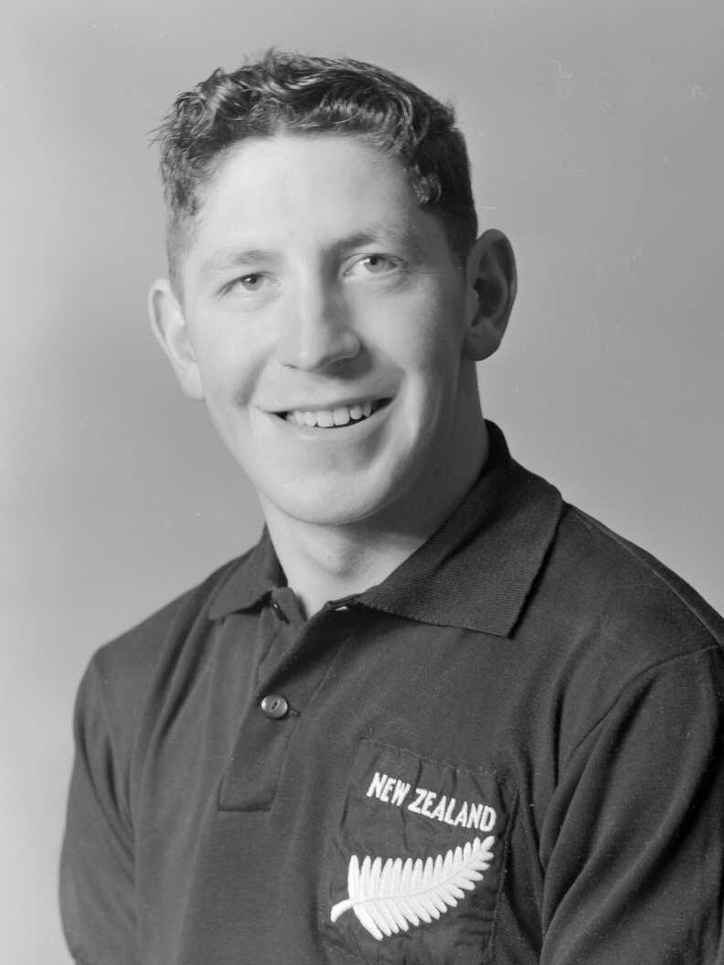 Peter Byers, member of New Zealand Olympic hockey team, Tokyo, 1964